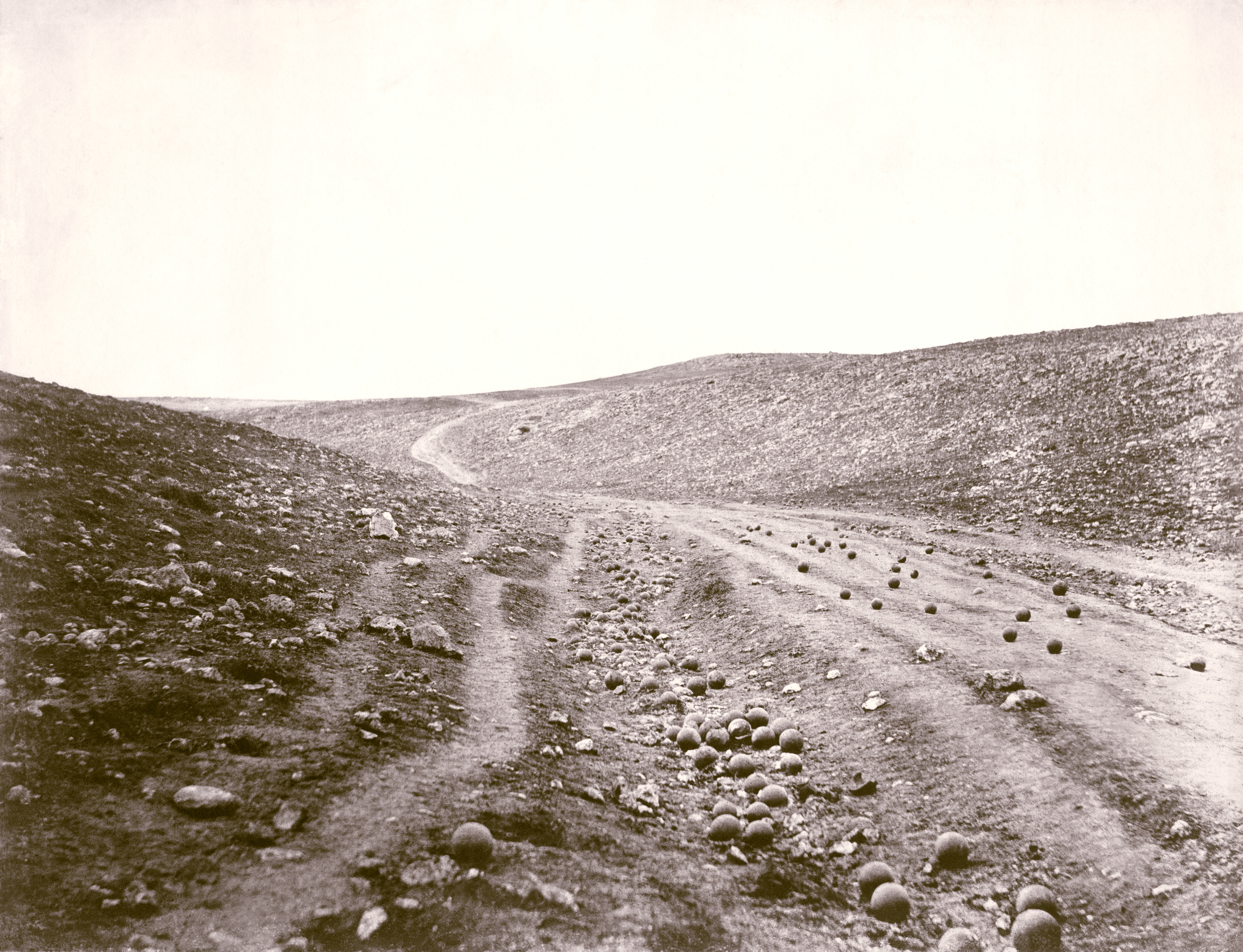 "The valley of the shadow of death" Crimean War photograph. Dirt road in ravine scattered with cannonballs. 27.6 × 34.9 cm (10 7/8 × 13 3/4 in.), salted paper print. Victoria and Albert Museum, London.